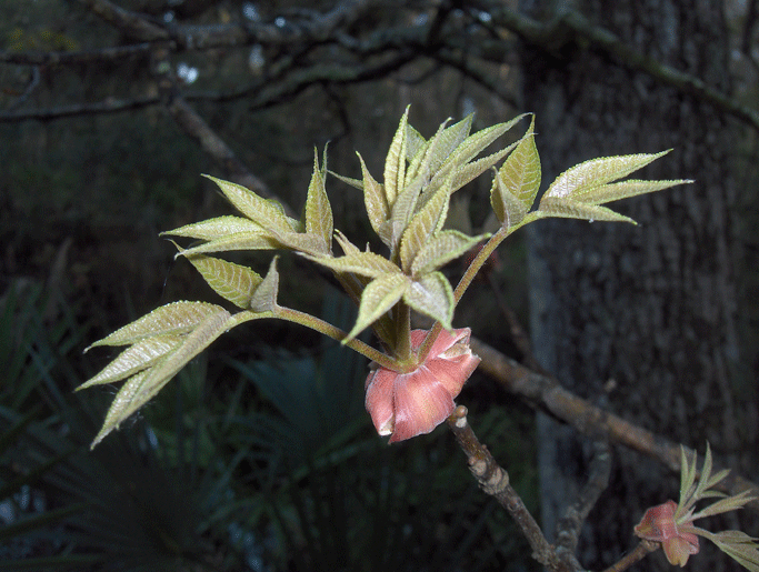 Pignut Hickory